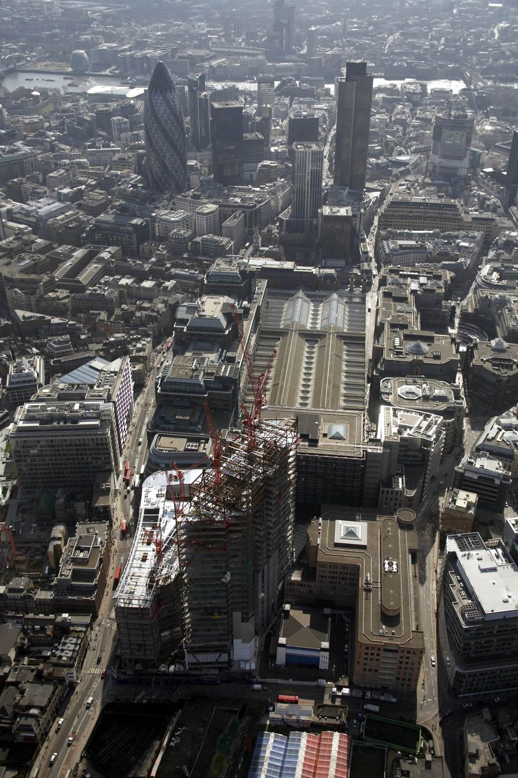 Aerial view of the Broadgate Tower, London